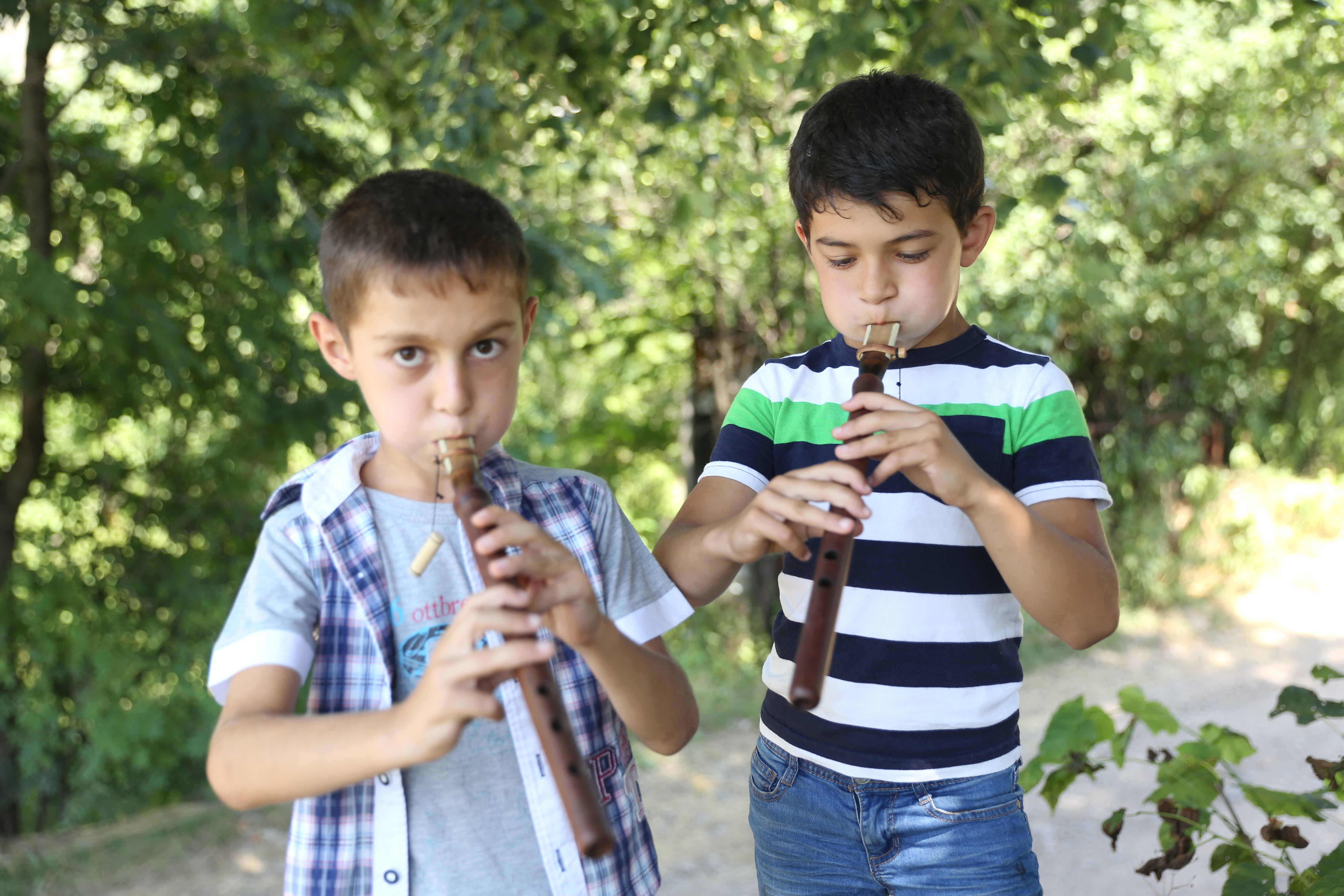 Հայաստանի գյուղերի երեխաները դուդուկ են նվագում